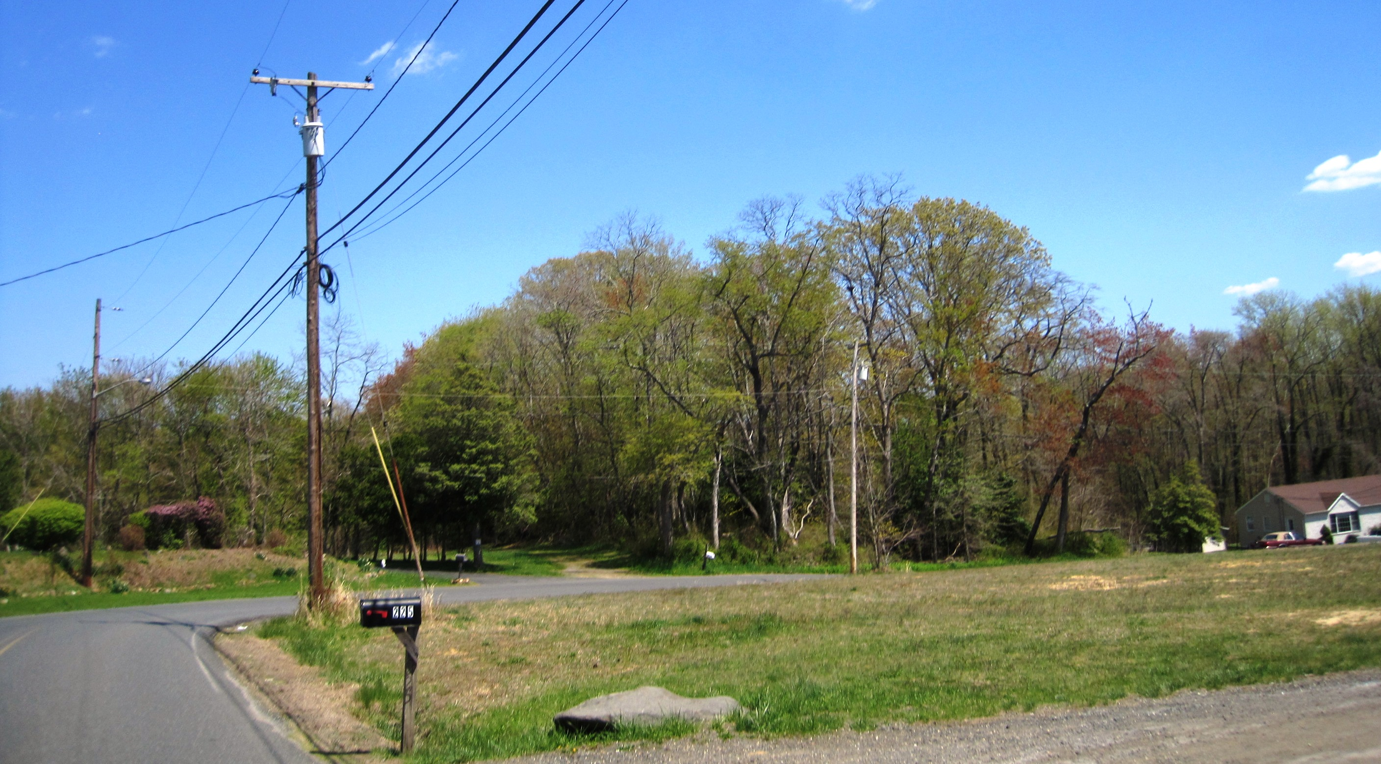 Photo showing Gravel Hill, New Jersey, an unincorporated community within Monroe Township. Photo was taken on Gravel Hill Road.